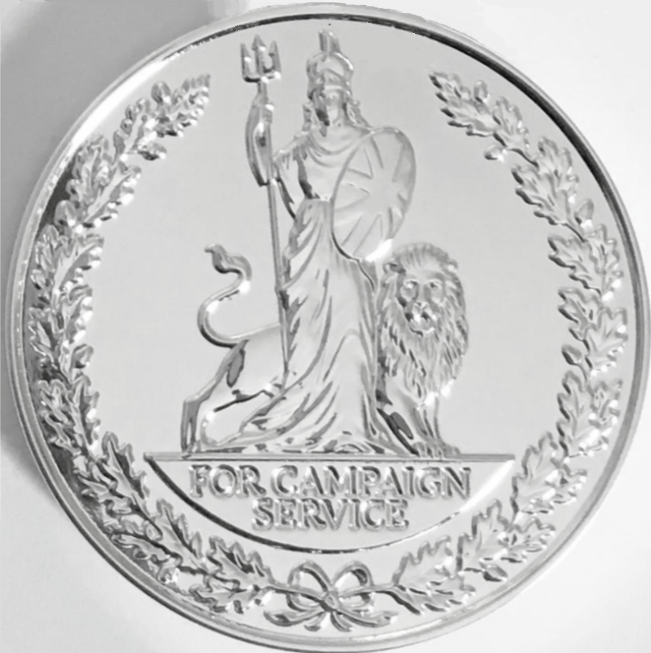 British campaign medal awarded to army, RAF & Royal Navy for minor operations after January 2008